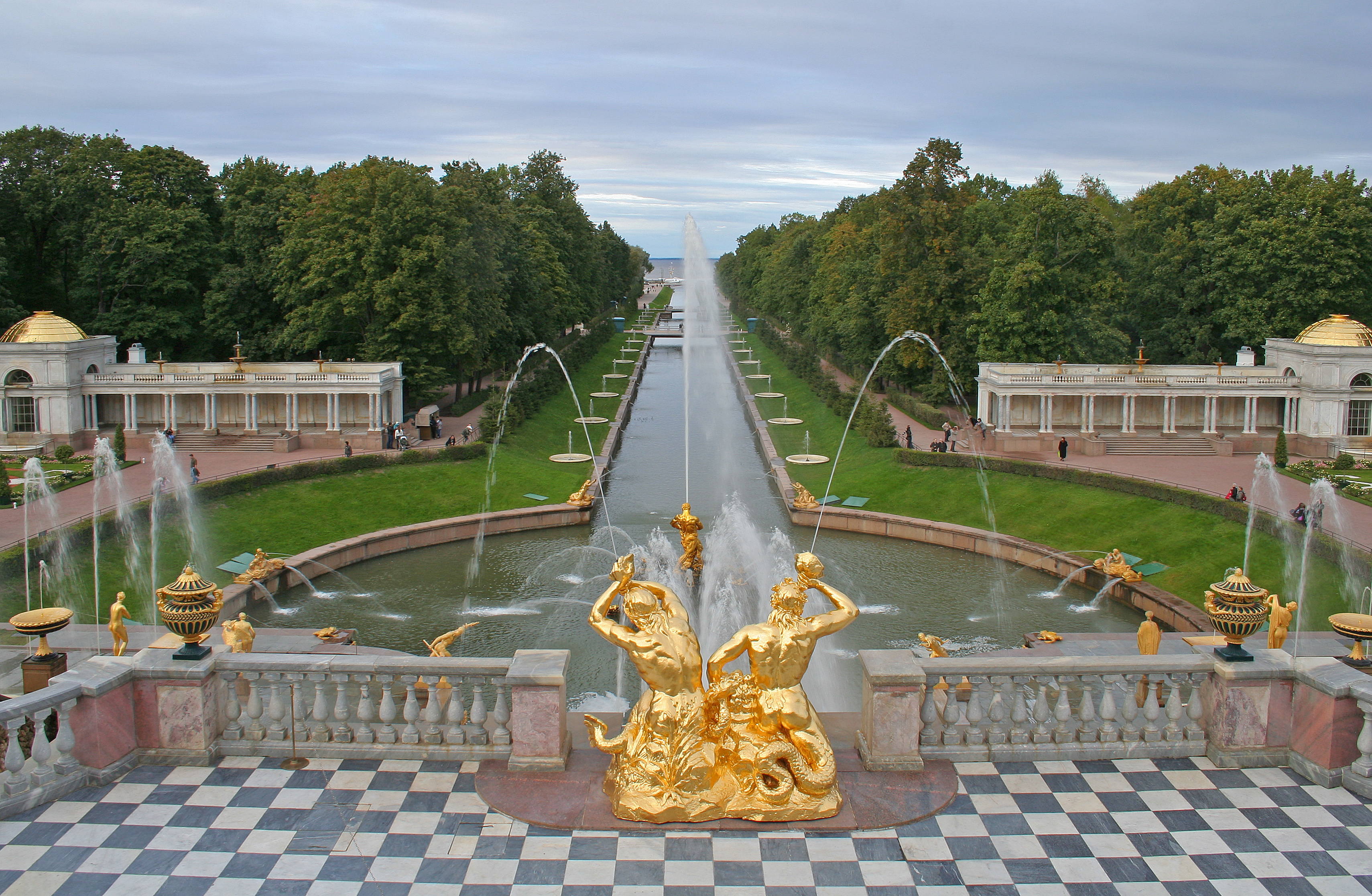 Lower Park in Peterhof, Saint Petersburg. Big Cascade.